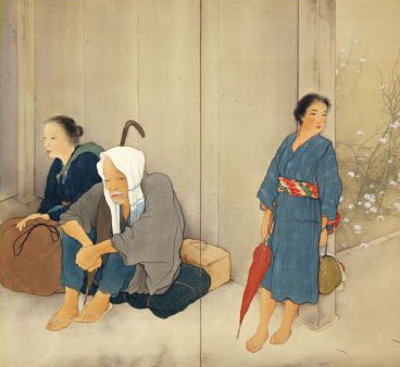 Hardness of Traverlers' Ways